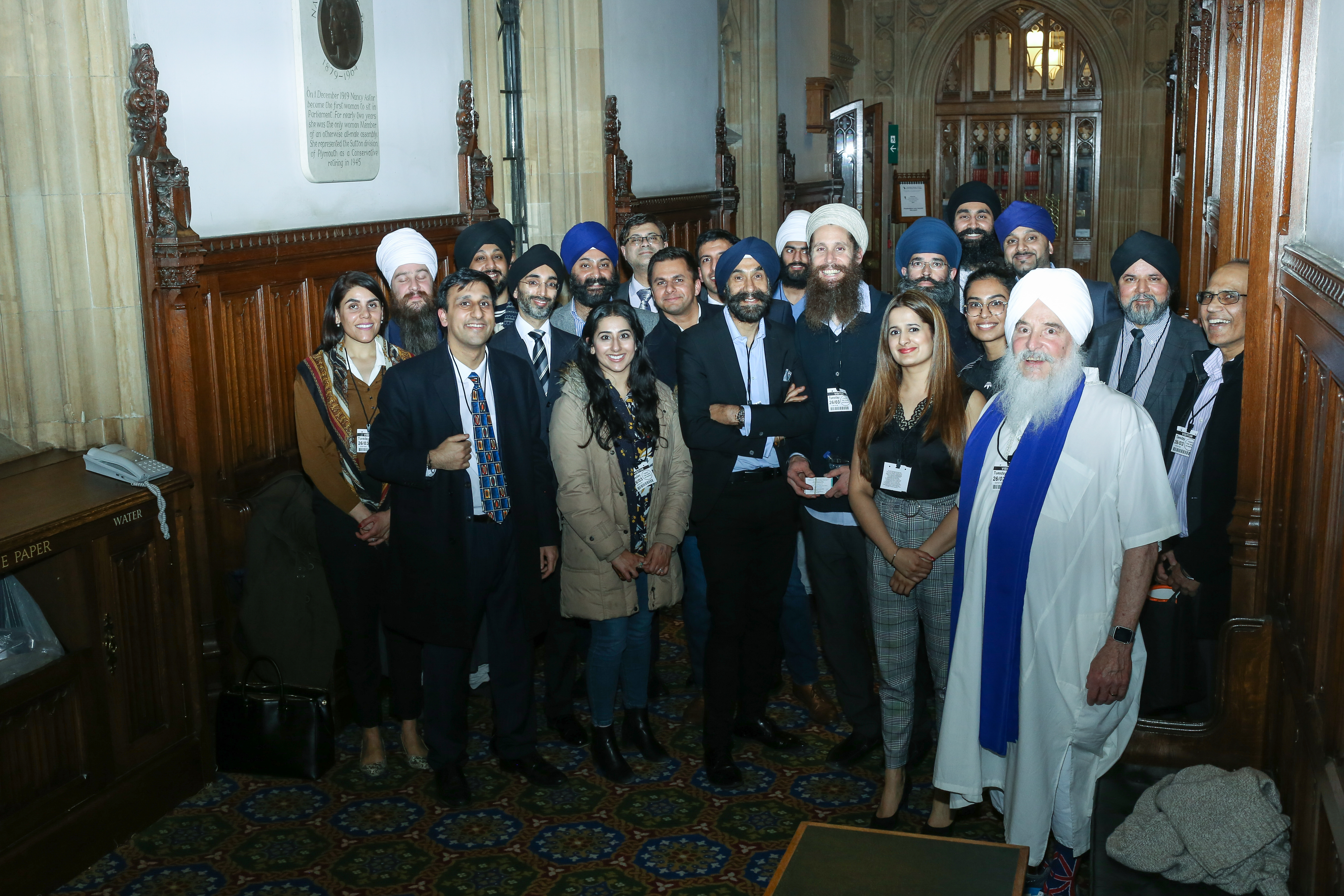 City Sikhs Team hosting the Sikhnet Team from America in the UK Parliament